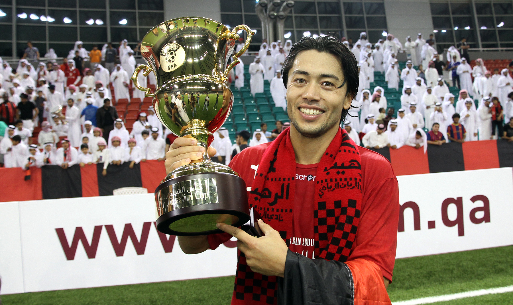 Al Rayyan's Brazilian player Rordigo Tabata holds aloft the Sheikh Jassim Cup at the ASPIRE Indoor pitch. Picture by Vinod Divakaran